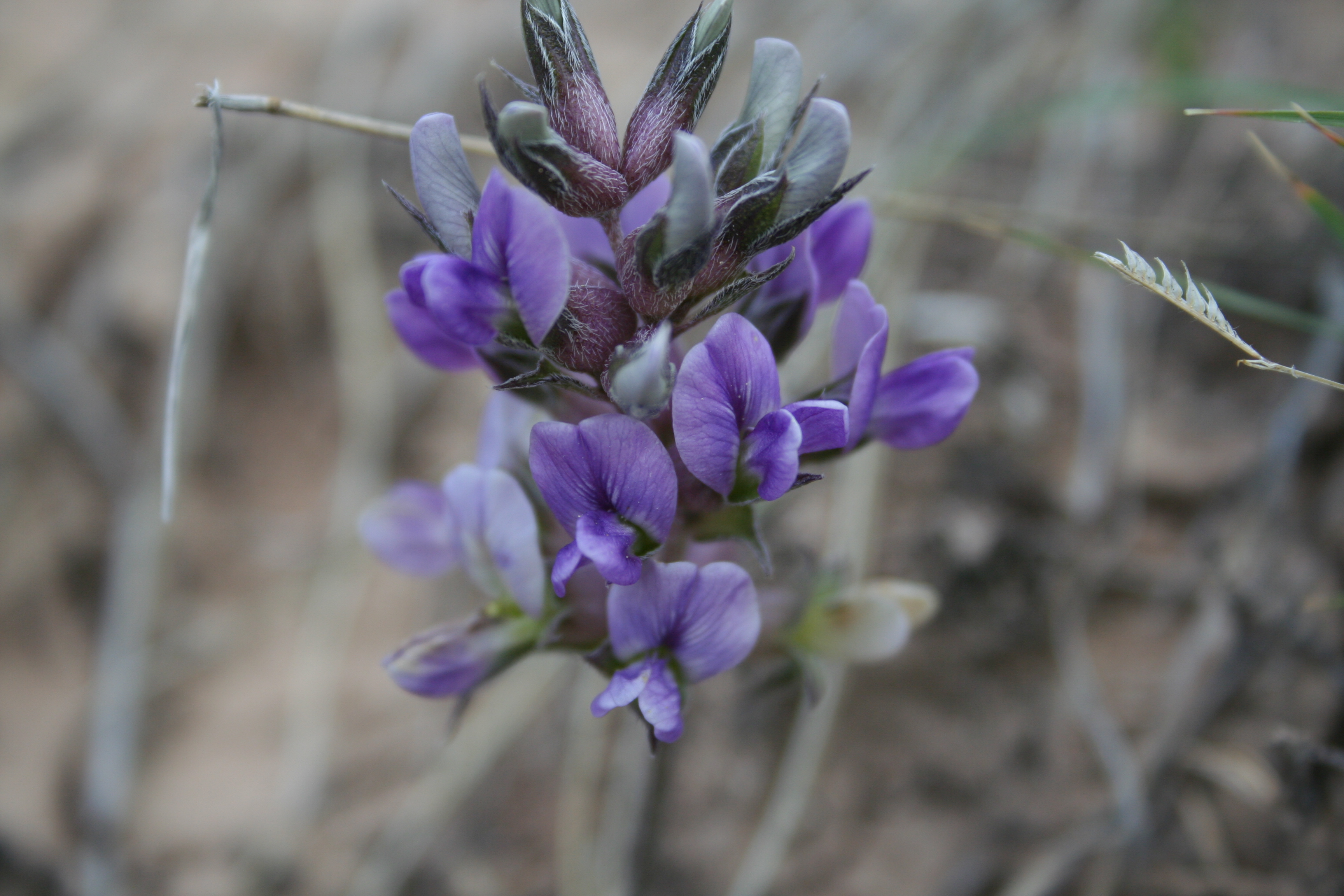 The flower of the prairie turnip. Photo taken in Badlands National Park, South Dakota